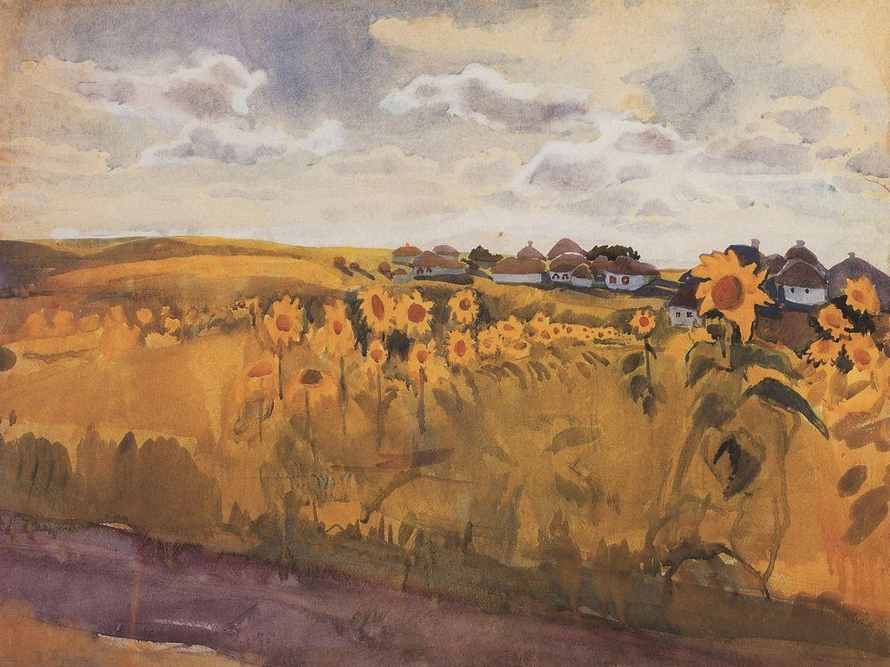 Autumn